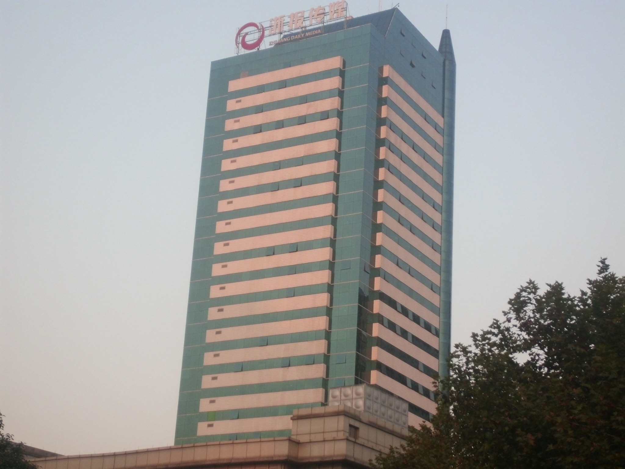 Zhejiang Daily Press Group